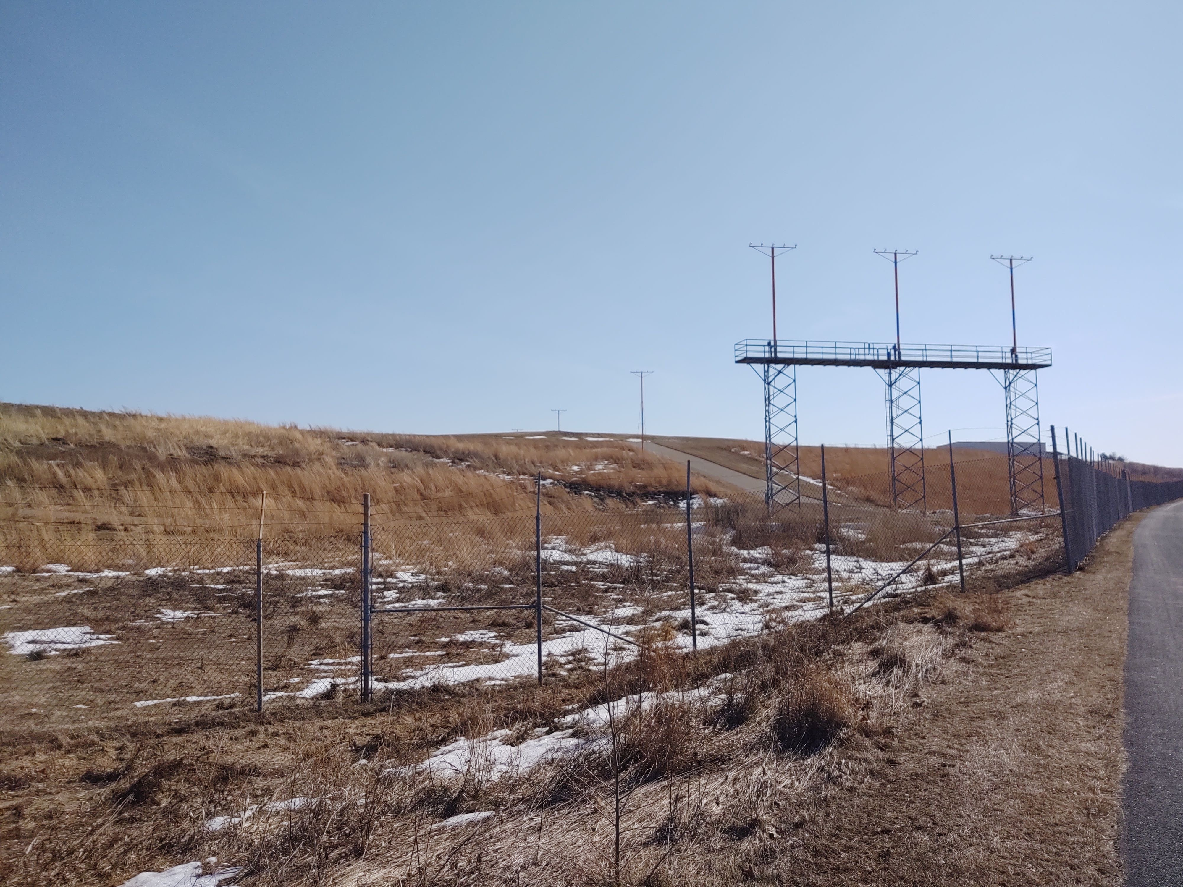 West approach towers